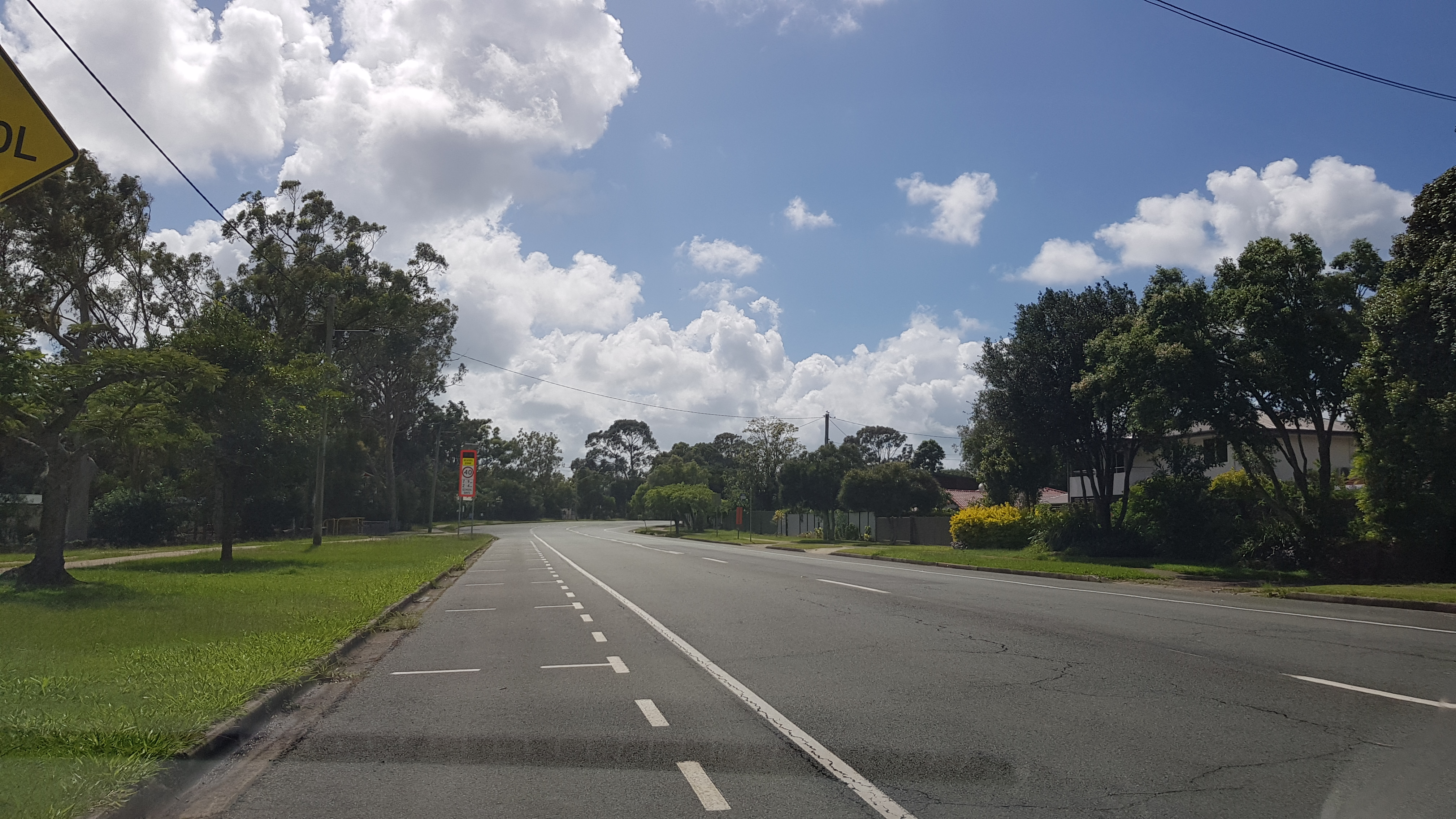 Panorama Dr at Thornlands, Redland City, Queensland, facing north-east